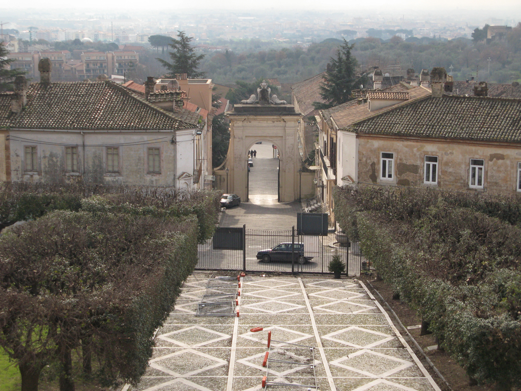 Rear view of the Arco Borbonico (arched gate), and the entry garden of Palazzo del Belvedere, in San Leucio - Campania.